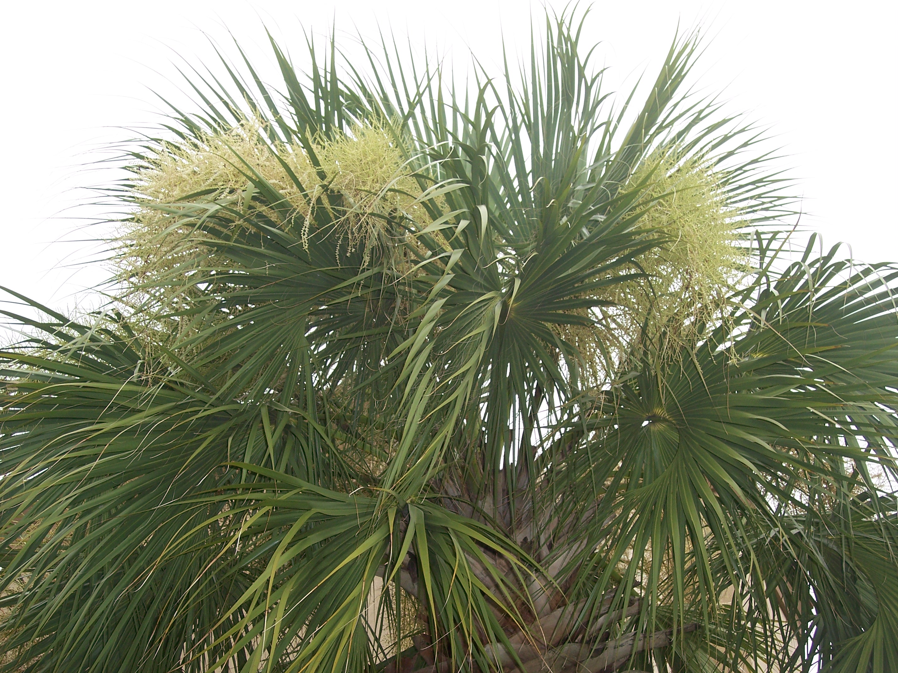 Flowering s palmetto in Tampa, Fl (infloresences interfoliar)